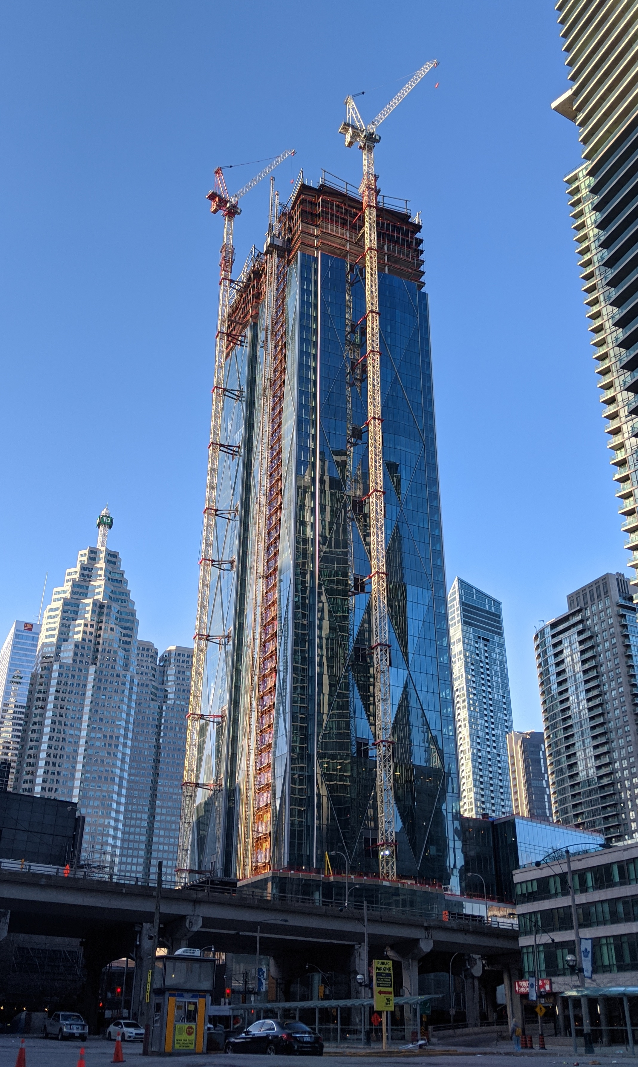 CIBC Square from Harbour Street